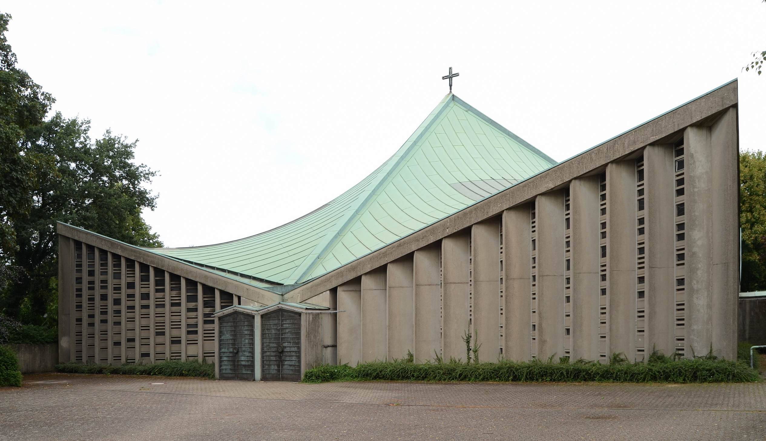 Krefeld (North Rhine-Westphalia, Germany) – district Gartenstadt – Catholic Saint Pius X Church This image shows a heritage building in Germany, located in the North Rhine-Westphalian city Krefeld (no. 814). This photograph was taken with a Nikon D7000